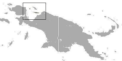 Geelvink Bay Flying Fox (Pteropus pohlei) range